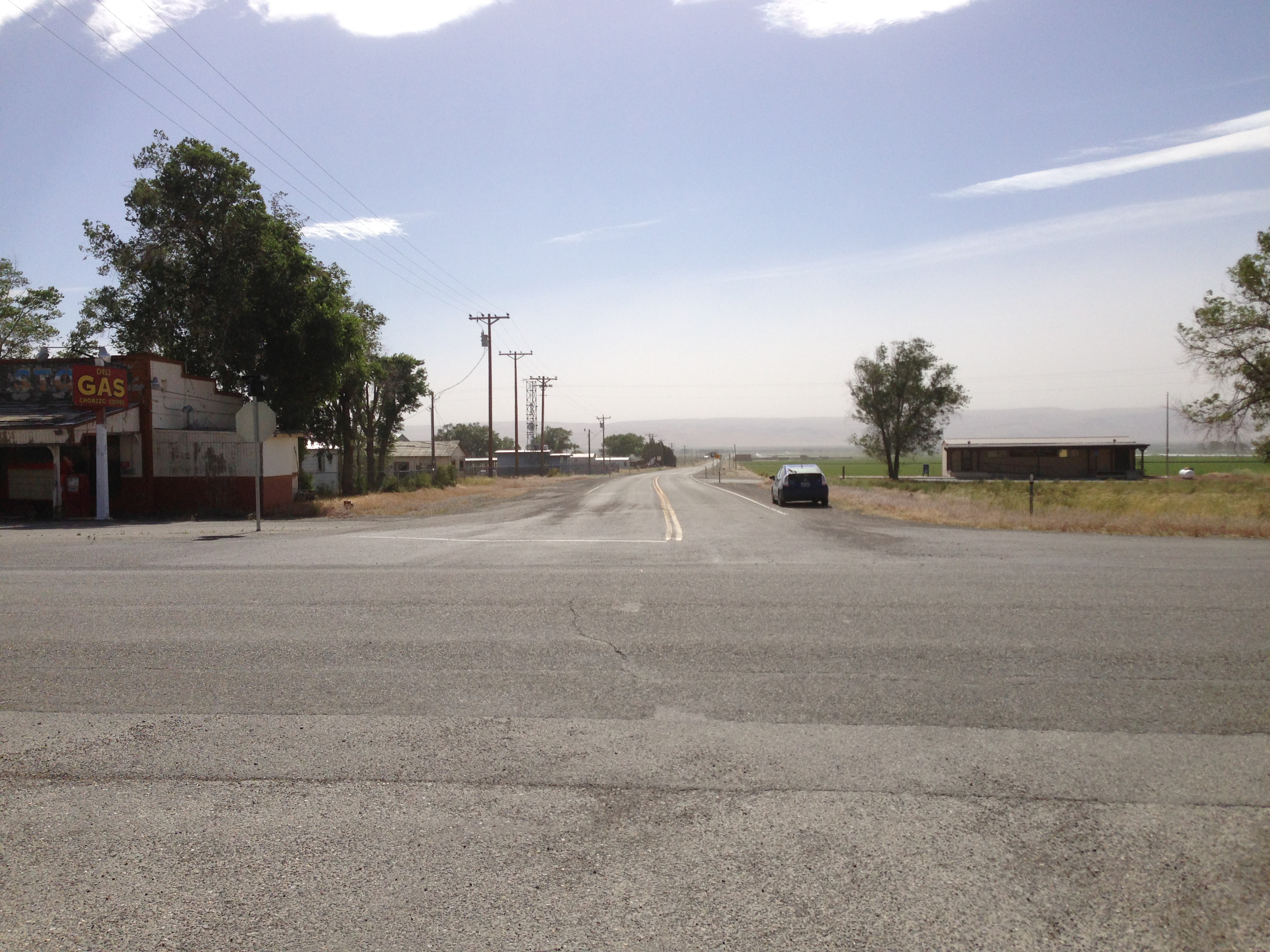 View west at the east end of Nevada State Route 293 (Kings River Road) in Orovada, Nevada